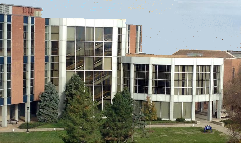 Newer entrance, Pius XII Library, St. Louis U.